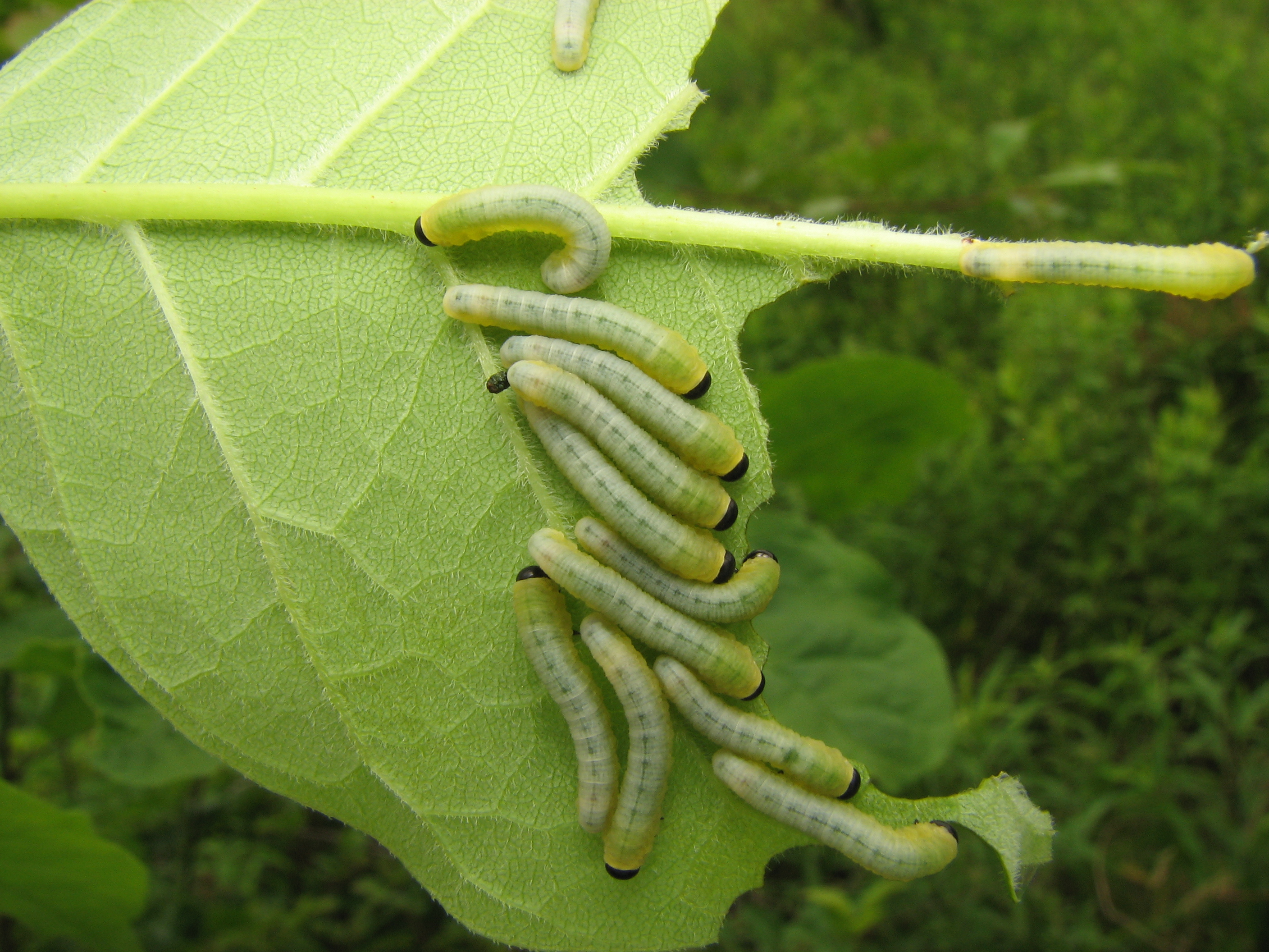 Larvae of black-headed ash sawfly, Tethida barda, on ash tree. Size: 8-12 mm. Horsham Trail, Horsham, Montgomery County, Pennsylvania, USA.